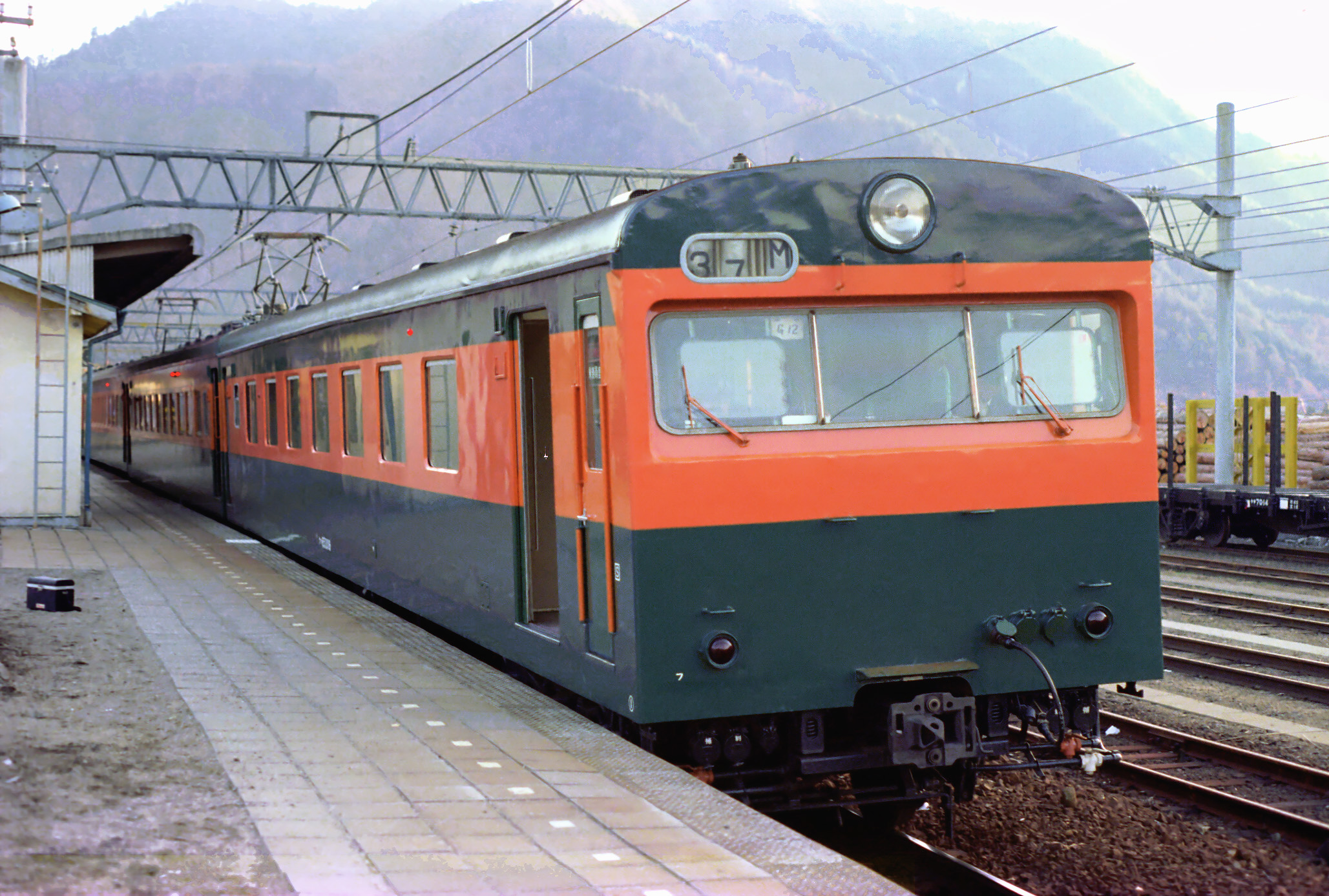 Japanese National Railways 80 series EMU at Agematsu station in Chuo main line. The top car is KuHa85309 of KuHa85 type one.